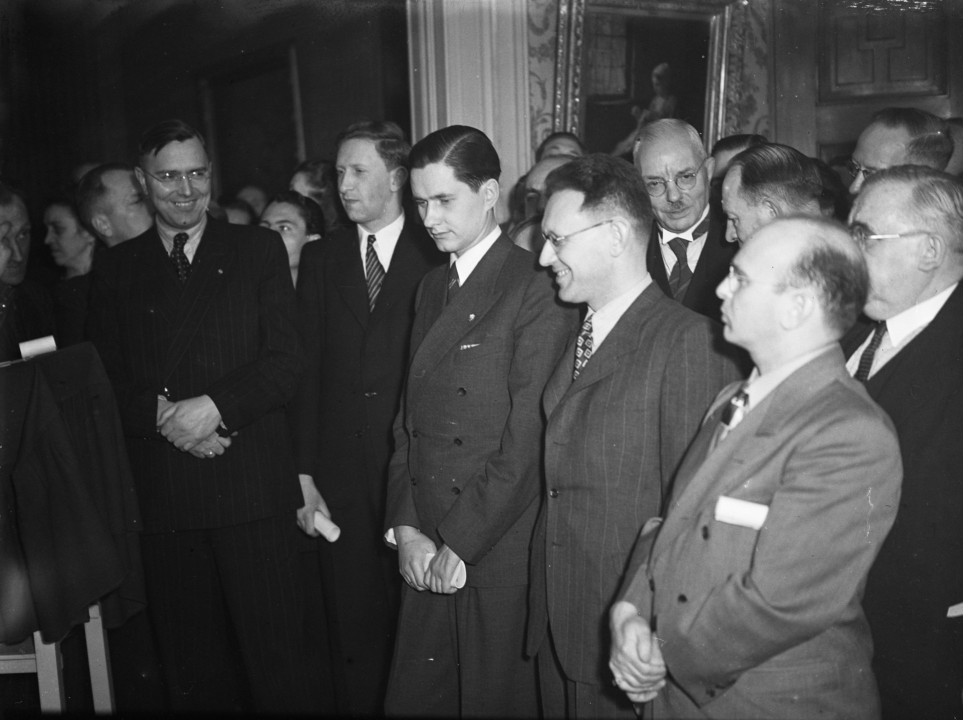 World championship chess in The Hague (1948). Left to right: Euwe, Smyslov, Keres, Botwinnik & Reshevsky